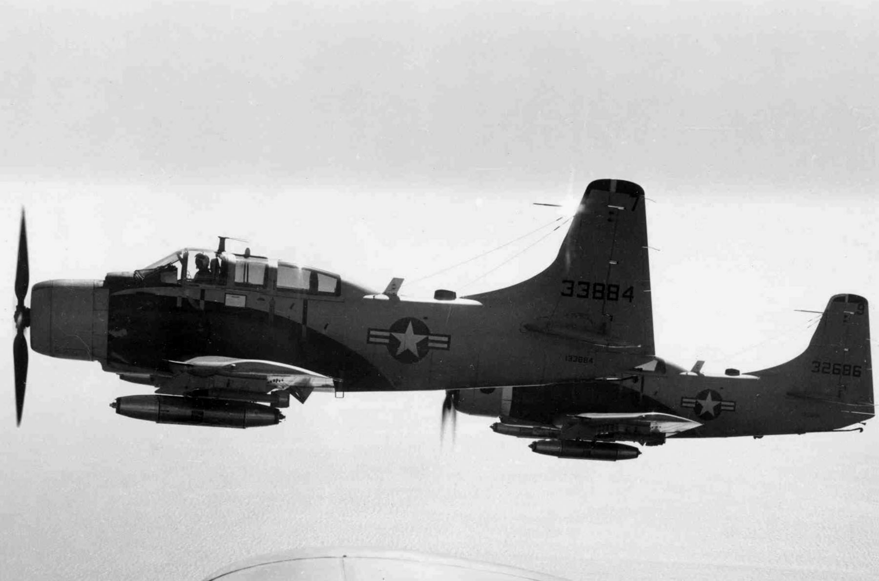 Two U.S. Air Force Douglas A-1E Skyraiders (s/n 52-133884 and 52-132686) in flight over South Vietnam. Both aircraft are armed with HVAR rockets and napalm canisters.